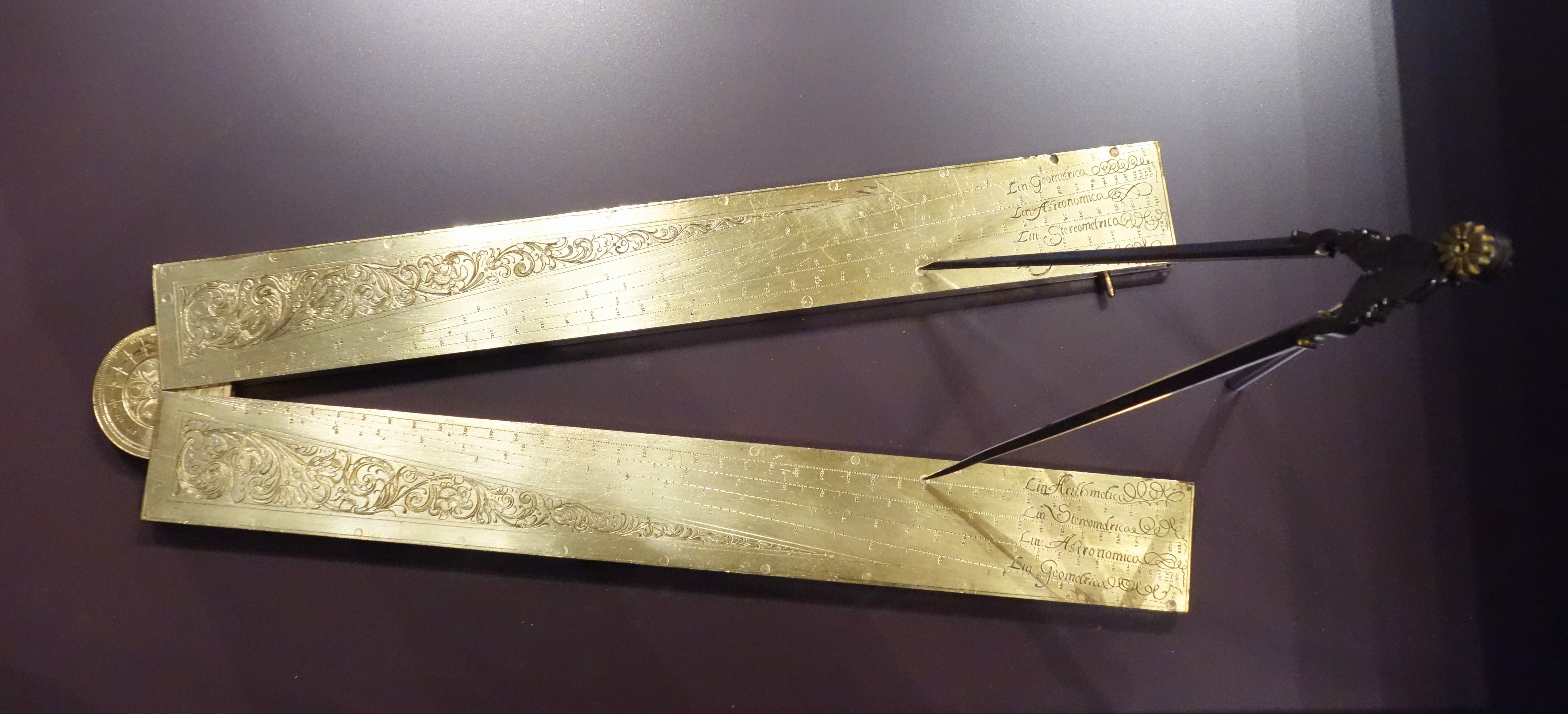 Exhibit in the Mathematisch-Physikalischer Salon (Zwinger), Dresden, Germany. This artwork is old enough so that it is in the public domain.